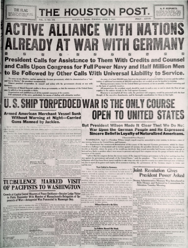 Image of the front page of a newspaper published by "The Houston Post" on April 3, 1917. Two days after an American merchant ship (the Aztec, sunk in the Atlantic Ocean off Ouessant, Finistère, France (48°20′N 6°00′W) by SM U-46 with the loss of 28 crew is sunk by a German submarine, these headlines reflect the sentiment in the days leading to the United States' involvement in World War I.